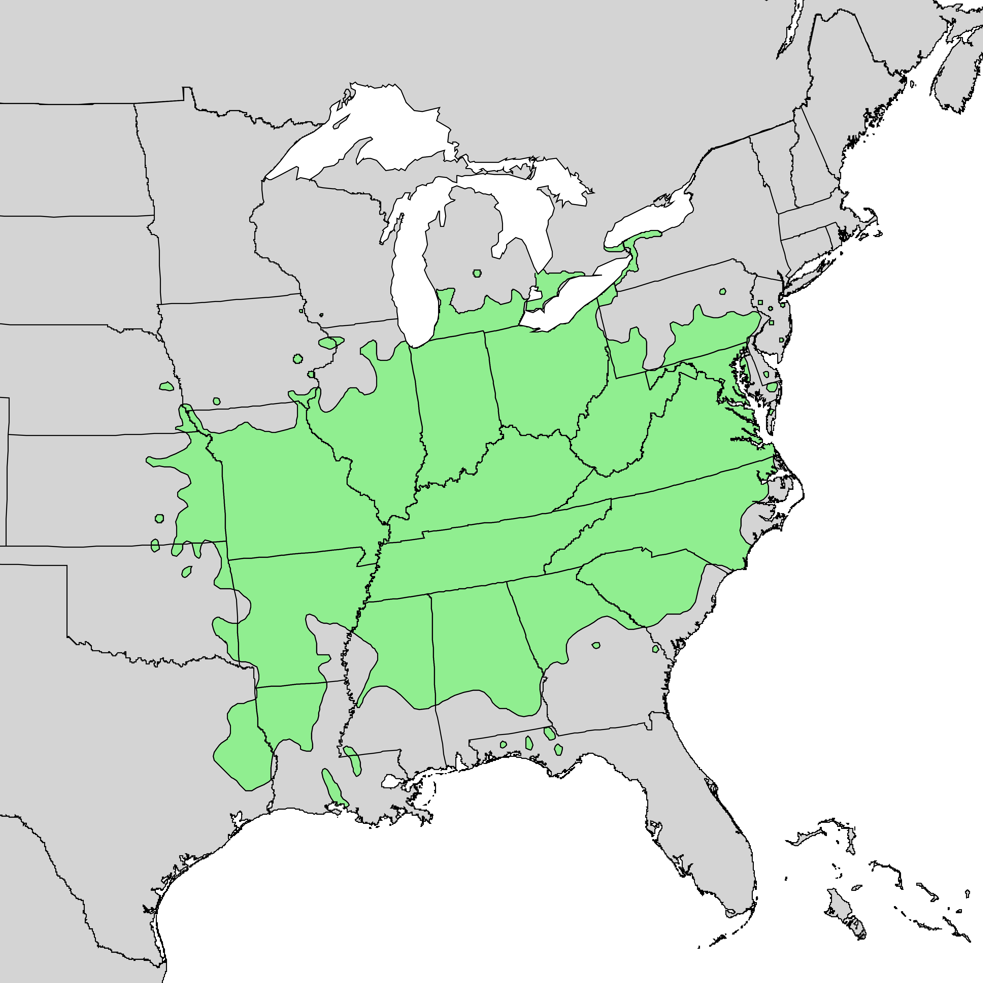 Natural distribution map for Asimina triloba